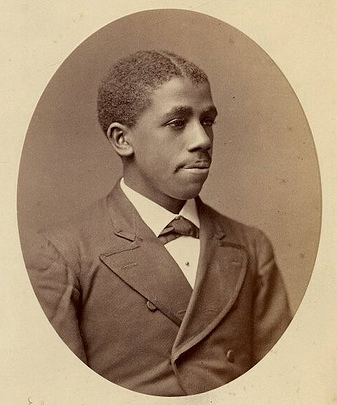 Portrait of Edward Alexander Bouchet, Yale College class of 1874, the first African-American to graduate from Yale College. Courtesy of the Yale University Manuscripts & Archives Digital Images Database. Retouched by MarmadukePercy.